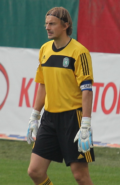 Sergei Pareiko